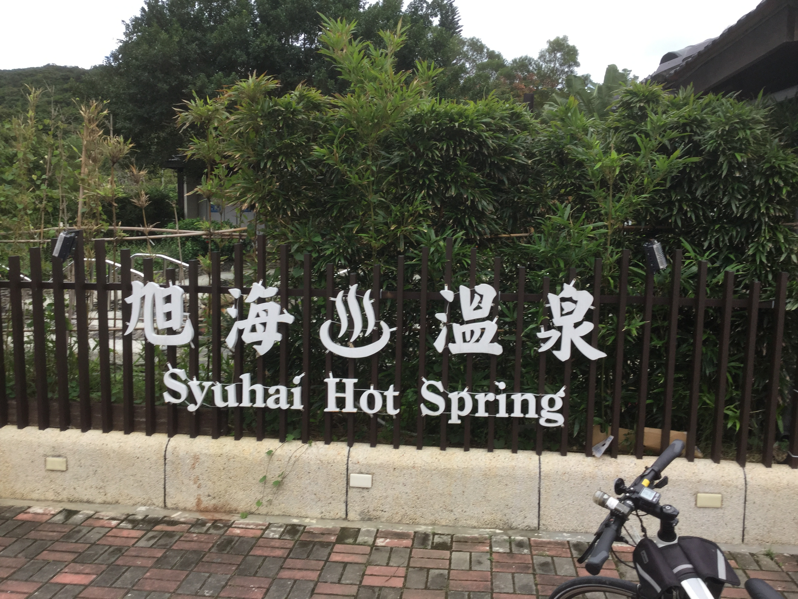 Syuhai Hot Spring in Pingtung County, Mudan Township